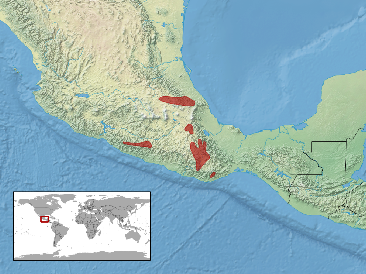 geographic distribution of Crotalus intermedius (Native: Mexico)